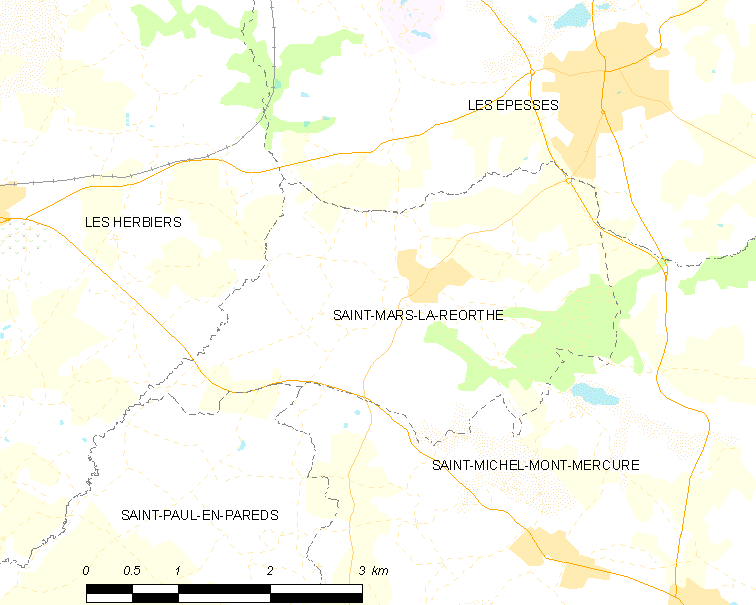 Map of French municipality Saint-Mars-la-Réorthe